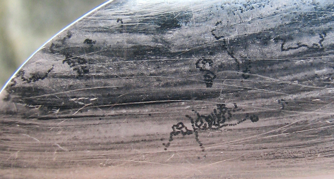 Trace of pheromones(?) left by ants on a spoon that still had a thin layer of yoghurt on it.